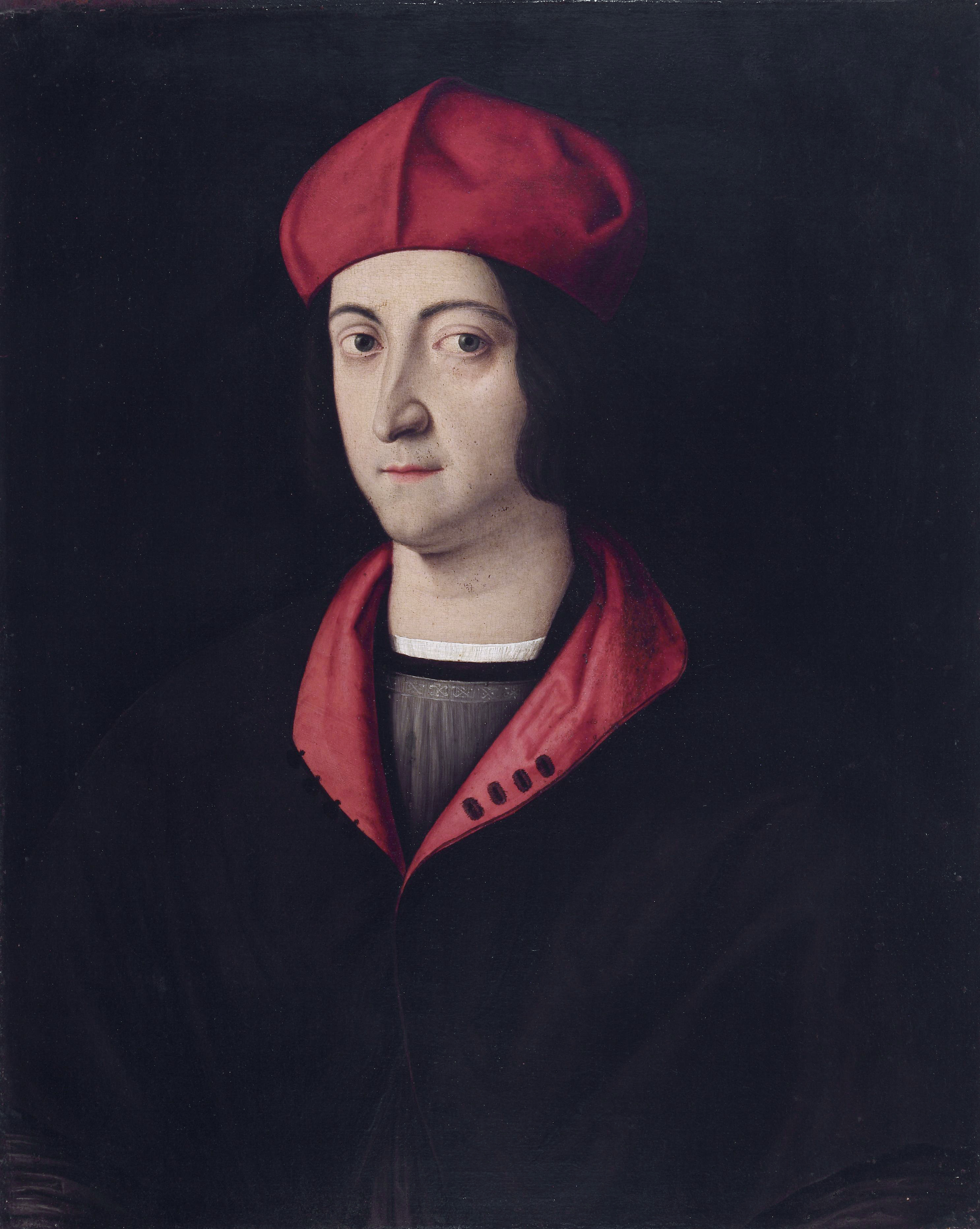 Cardinal Ippolito d’Este (1479–1520) oil on panel 60.5 x 48.5 cm